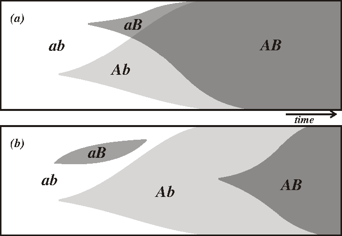 Diagram for Evolution of sex. Created in Corel Draw by Michael Reeve, 17 May 2004. Sex helps the spread of advantageous traits through recombination. The diagrams compare evolution of allele frequency in a sexual population (a) and an asexual population (b). The vertical axis shows frequency and the horizontal axis shows time. The alleles a/A and b/B occur at random. The advantageous combination AB arises rapidly with recombination (a), but must arise independently in (b).